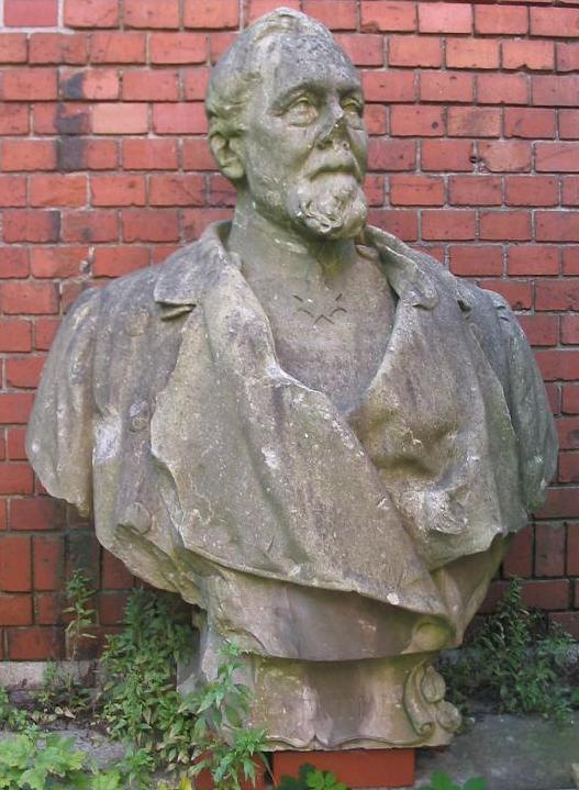 Bust of Generalfeldmarschall Leonhard Graf von Blumenthal. Side bust of the so-called monument group № 33 in the former Siegesallee in Berlin (central statue: Frederick III, German Emperor). Sculptor: Adolf Brütt. Unveiled on 18 October 1903. Shown here in the Lapidarium in Berlin-Kreuzberg in 2004.